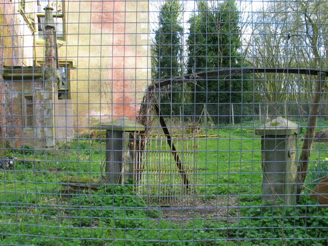 Gates at Bank Hall in Bretherton, used in the 1969 film The Haunted House of Horror.